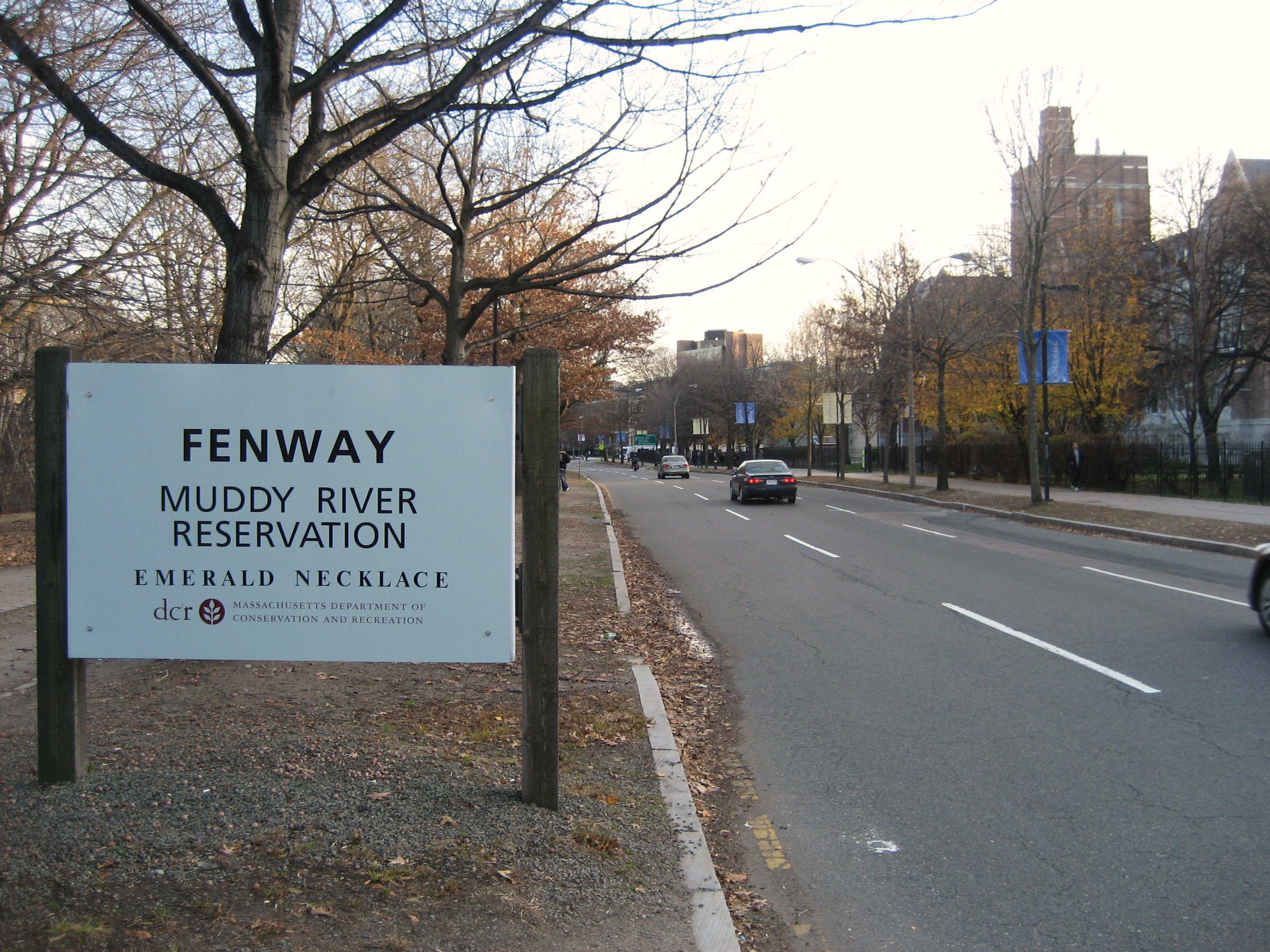 Start of Fenway at the intersection of Brookline Avenue in Boston